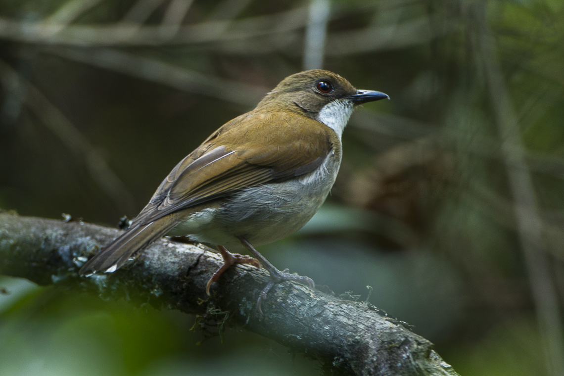 Cholo Alethe - Malawi S4E4612